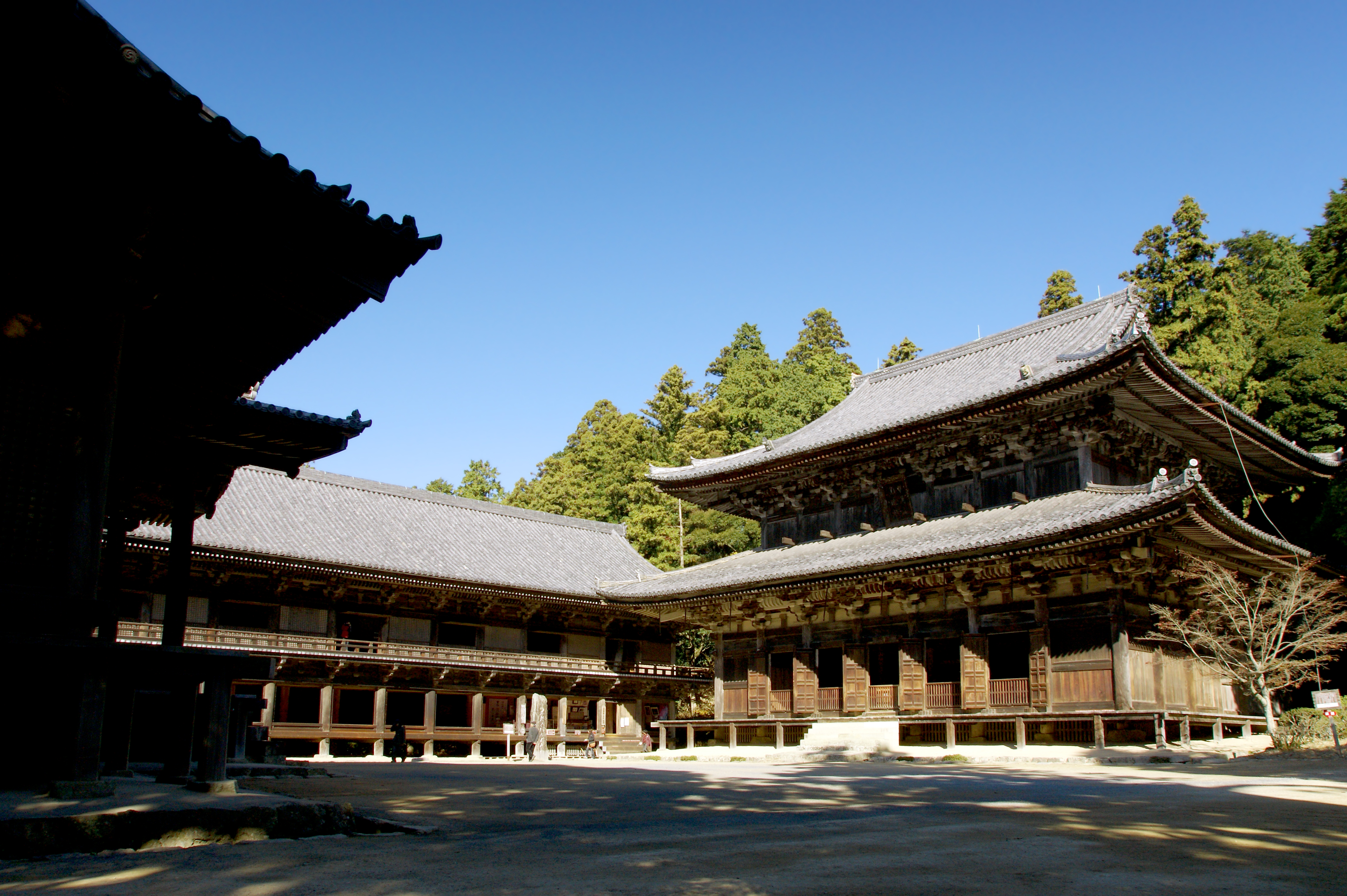 Engyō-ji temple in Himeji, Hyogo prefecture, Japan